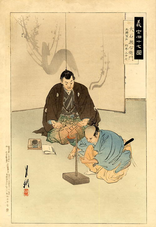 Ronin are masterless samurai. Chushingura is the true story of 47 samurai who became masterless in 1701, after their lord had been forced to commit ritual suicide (seppuku) for assaulting a court official who had insulted him. They avenged him by killing the court official after patiently planning for over a year. They were themselves then forced to commit seppuku.